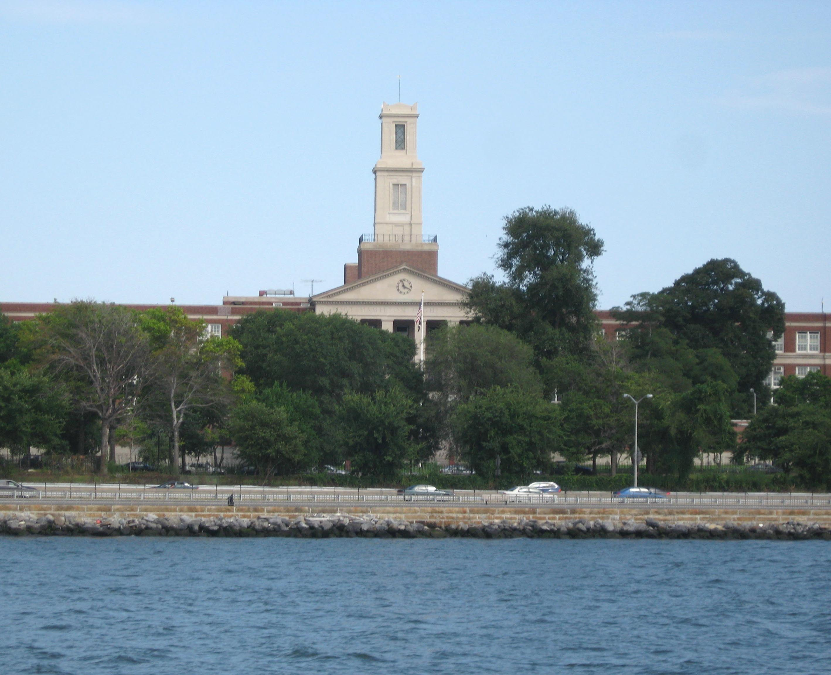 Looking east from a ferry at Fort Hamilton High School on a sunny afternoon